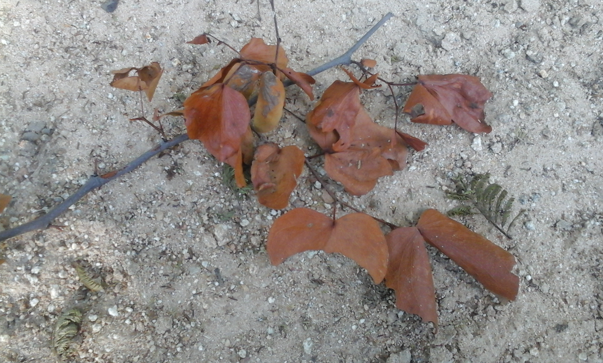 Setswana: Matlhare a setlhare sa Mophane a a omeletseng